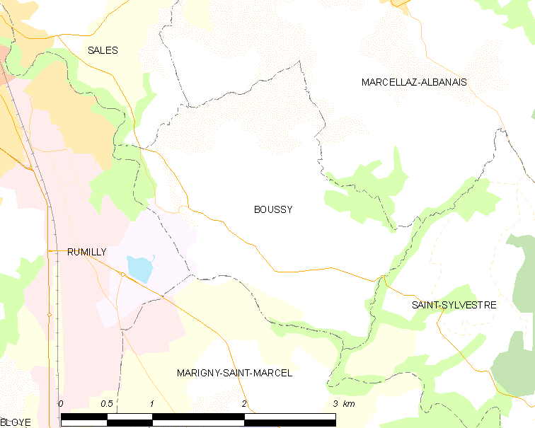 Map of French municipality Boussy